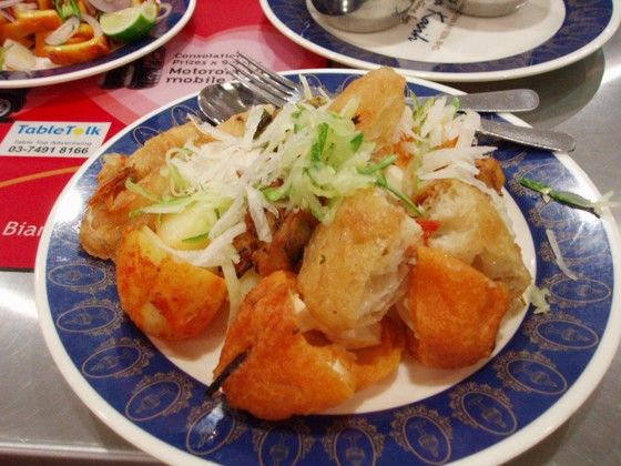 Malaysian Indian food Pasembur.